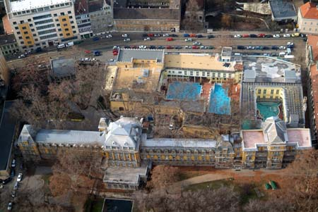 Lukács Bath, Budapest, Hungary, aerial photography